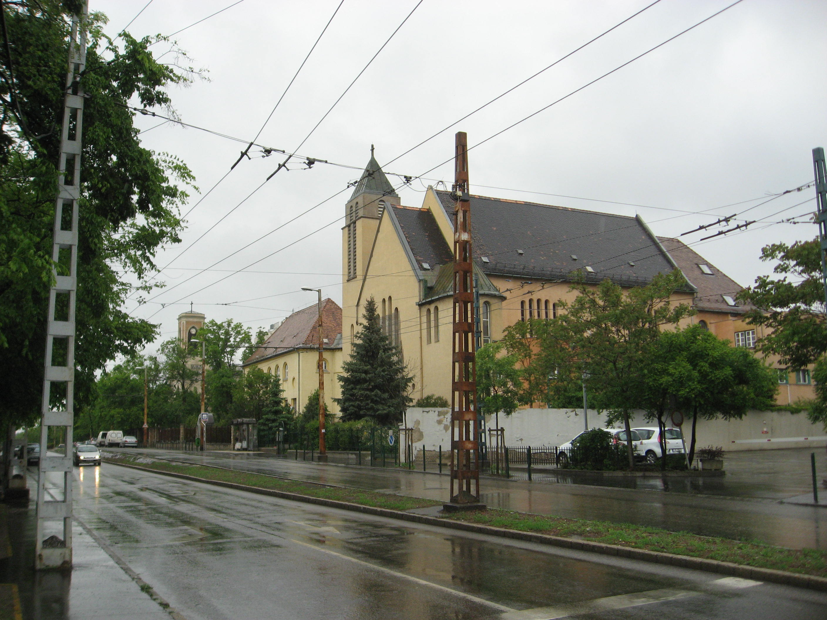 Hermina Chapel and Franciscan Missionaries of Mary, Budapest 23 & 19 Hermina Street, Budapest District XIV